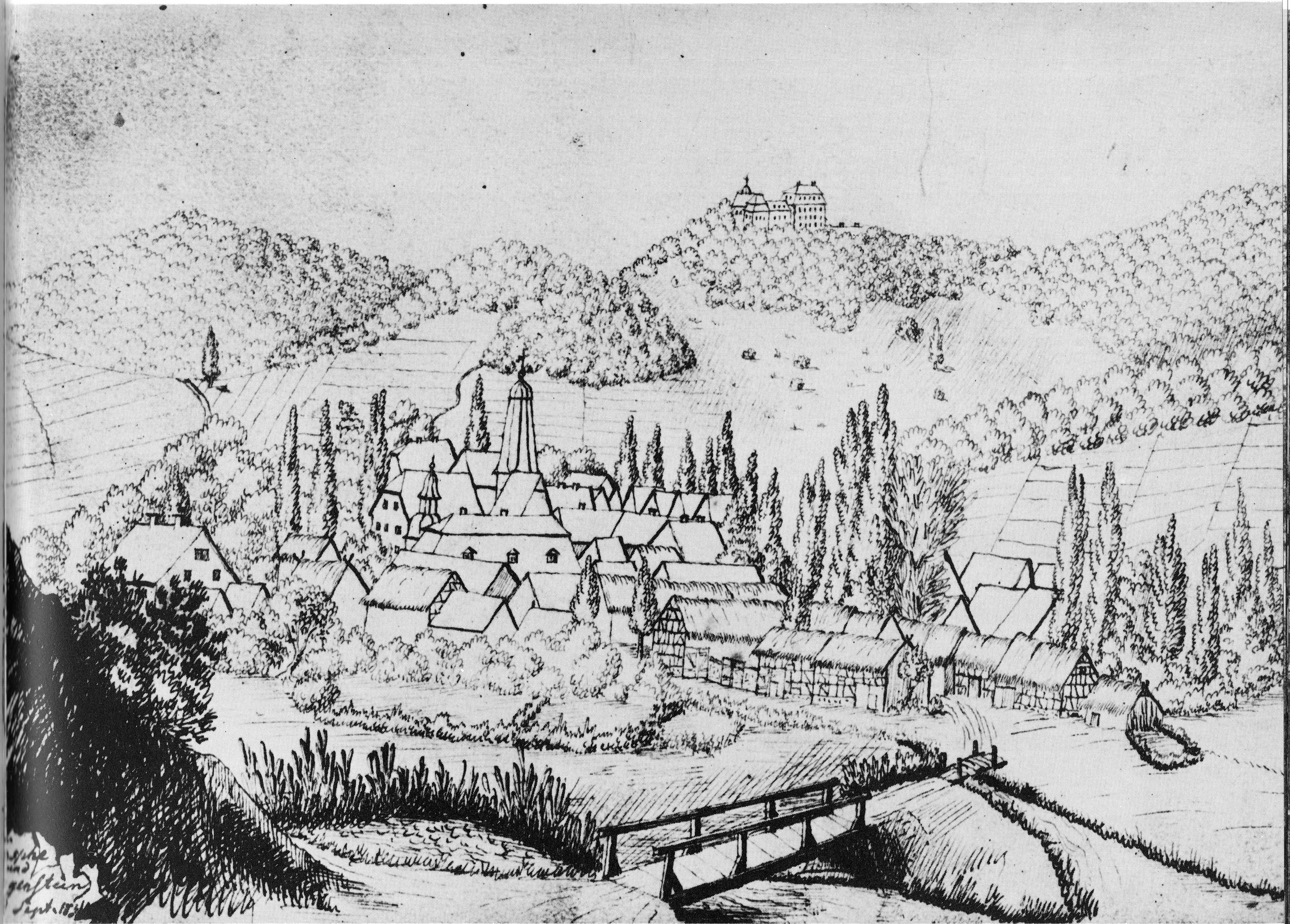 Laasphe in 1834 drewn from the “Steinchen”